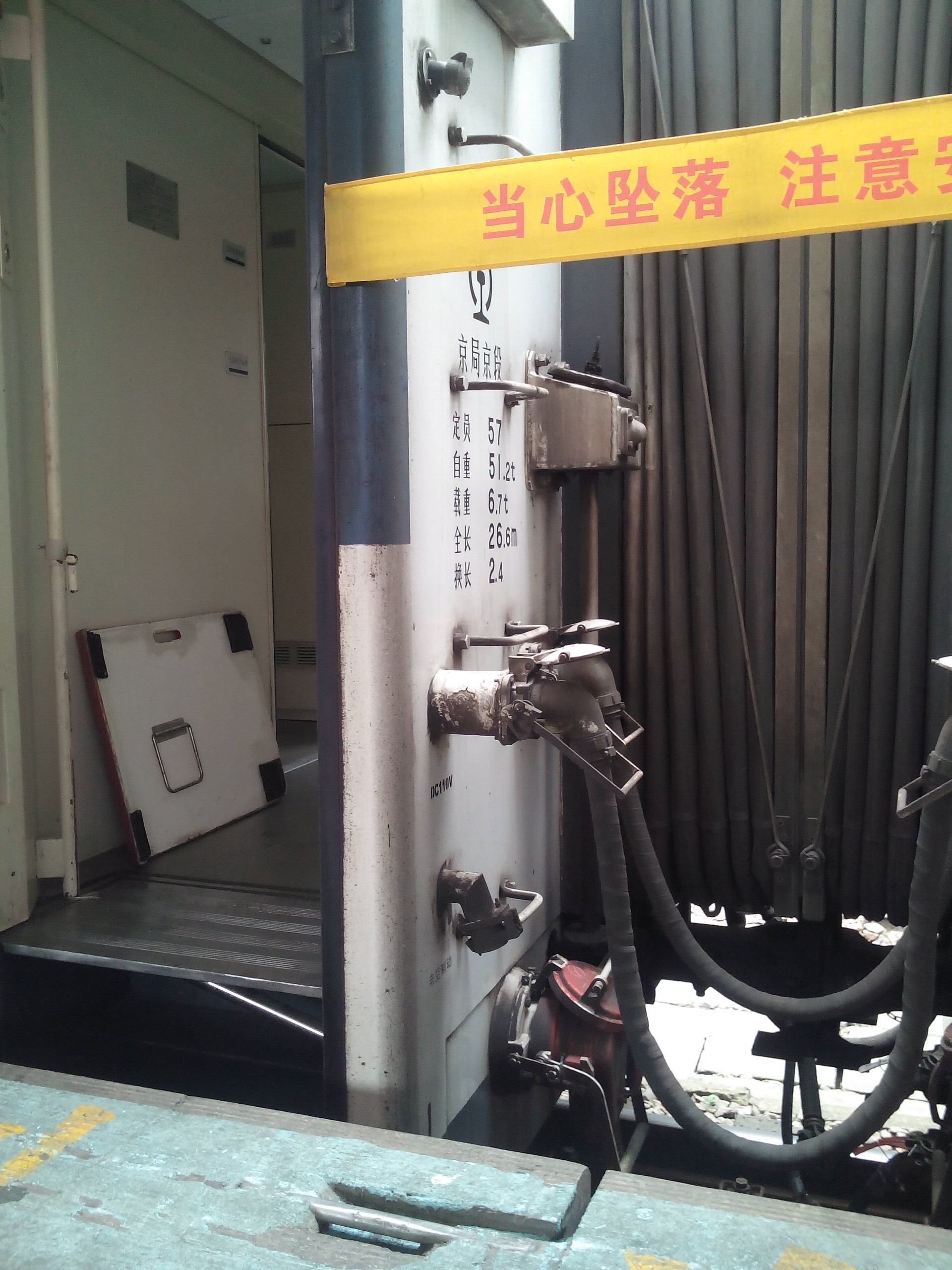 201504 Z89 90 coaches by Beijing Rolling Stock Depot (Shijiazhuang)